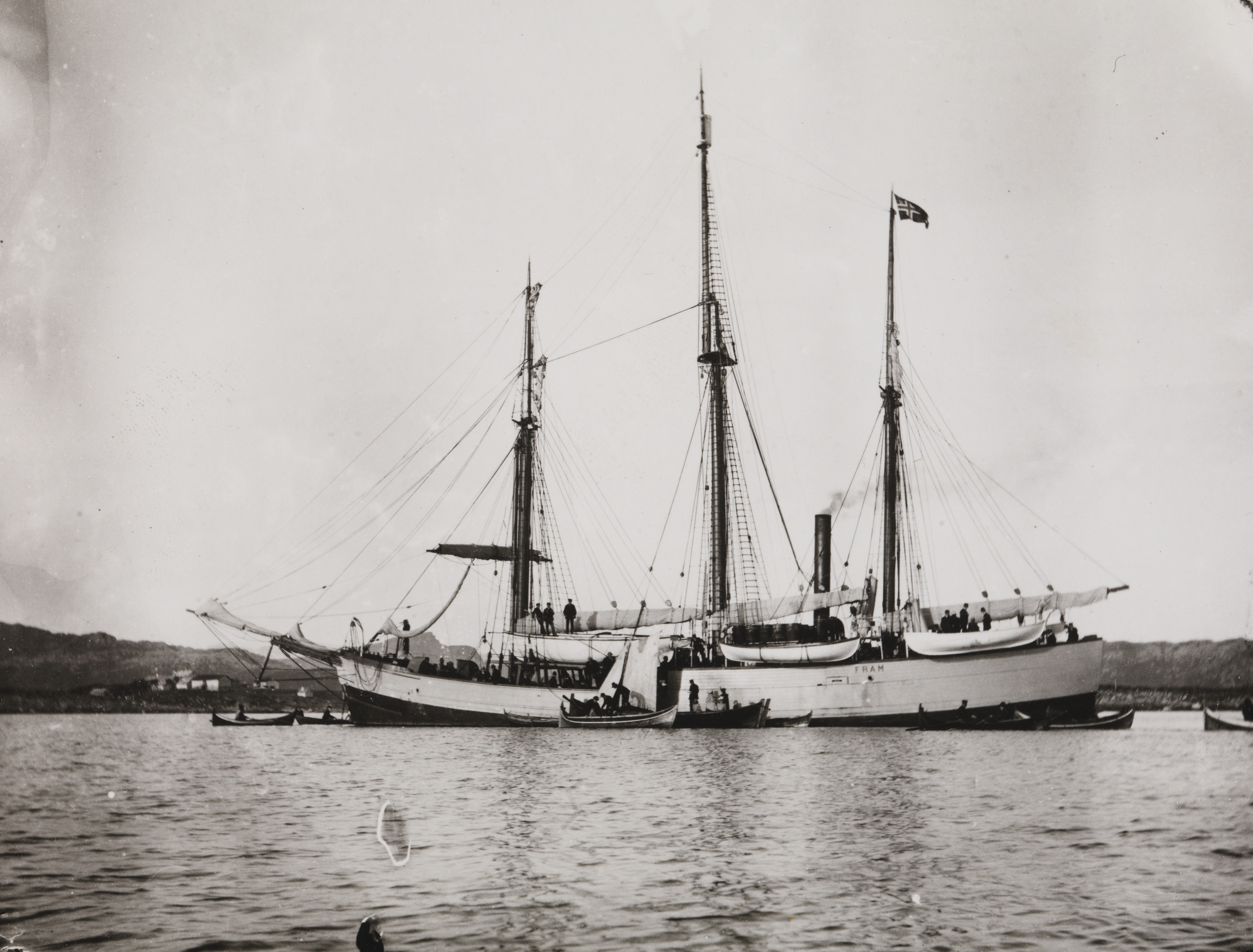 The «Fram»s departure. One of the pictures from the expedition with arctic ship toward the North Pole in the period June 24, 1893 to August 13, 1896. According to the plan, the ship was to drift in the ice with the ocean current from the coast of Siberia across the North Pole to Greenland. The goal, to get to the North Pole, was not reached, but the scientific evidence gathered was of great importance to arctic research.